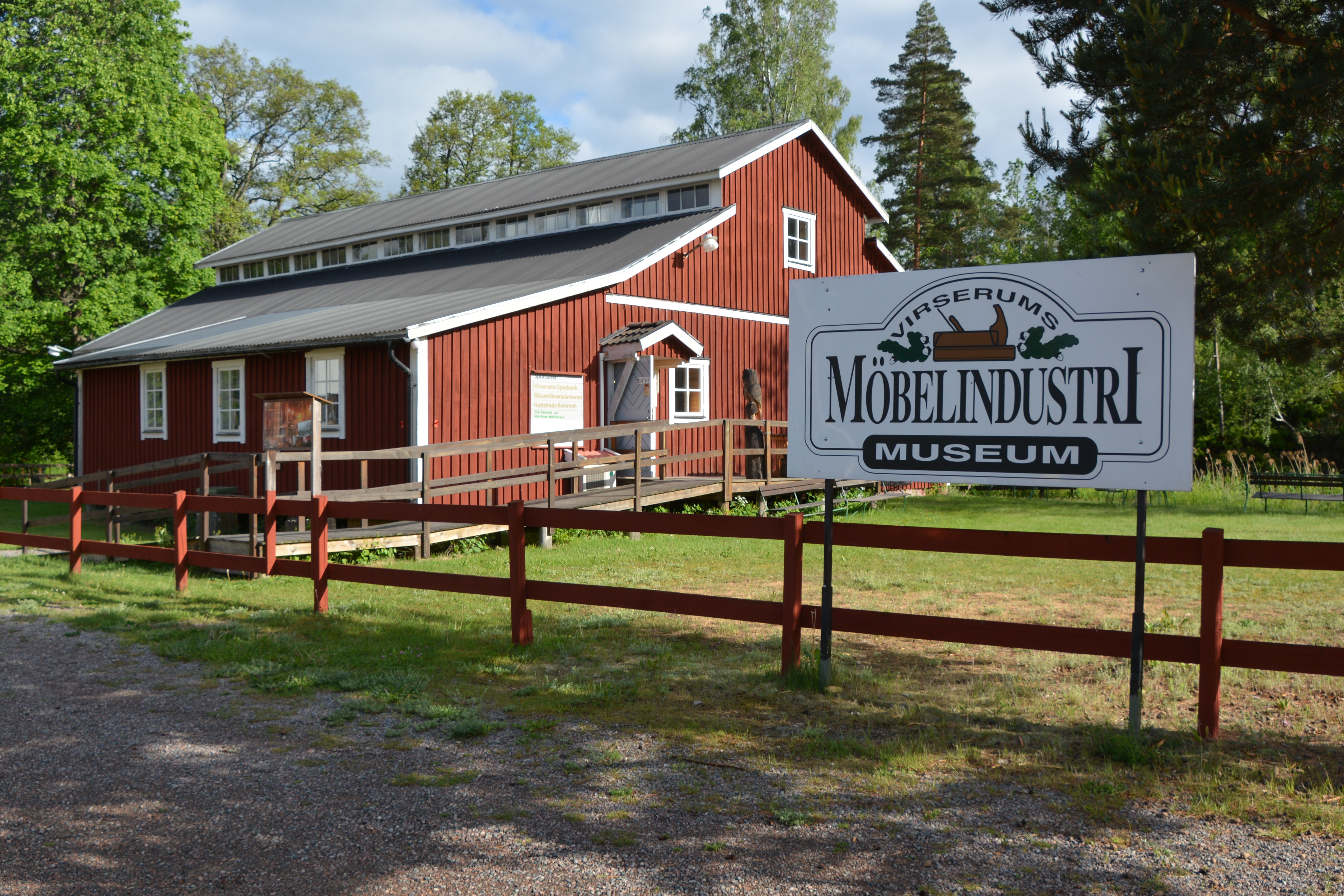 Virserums möbelindustrimuseum